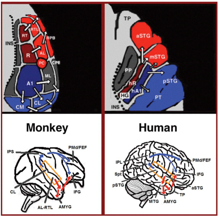 Dual stream connectivity between the auditory cortex and frontal lobe of monkeys and humans. Top: The auditory cortex of the monkey (left) and human (right) is schematically depicted on the supratemporal plane and observed from above (with the parieto- frontal operculi removed). Bottom: The brain of the monkey (left) and human (right) is schematically depicted and displayed from the side. Orange frames mark the region of the auditory cortex, which is displayed in the top sub-figures. Top and Bottom: Blue colors mark regions affiliated with the ADS, and red colors mark regions affiliated with the AVS (dark red and blue regions mark the primary auditory fields). Abbreviations: AMYG-amygdala, HG-Heschl’s gyrus, FEF-frontal eye field, IFG-inferior frontal gyrus, INS-insula, IPS-intra parietal sulcus, MTG-middle temporal gyrus, PC-pitch center, PMd-dorsal premotor cortex, PP-planum polare, PT-planum temporale, TP-temporal pole, Spt-sylvian parietal-temporal, pSTG/ mSTG/aSTG-posterior/middle/anterior superior temporal gyrus, CL/ ML/AL/RTL-caudo-/middle-/antero-/rostrotemporal-lateral belt area, CPB/RPB-caudal/rostral parabelt fields.